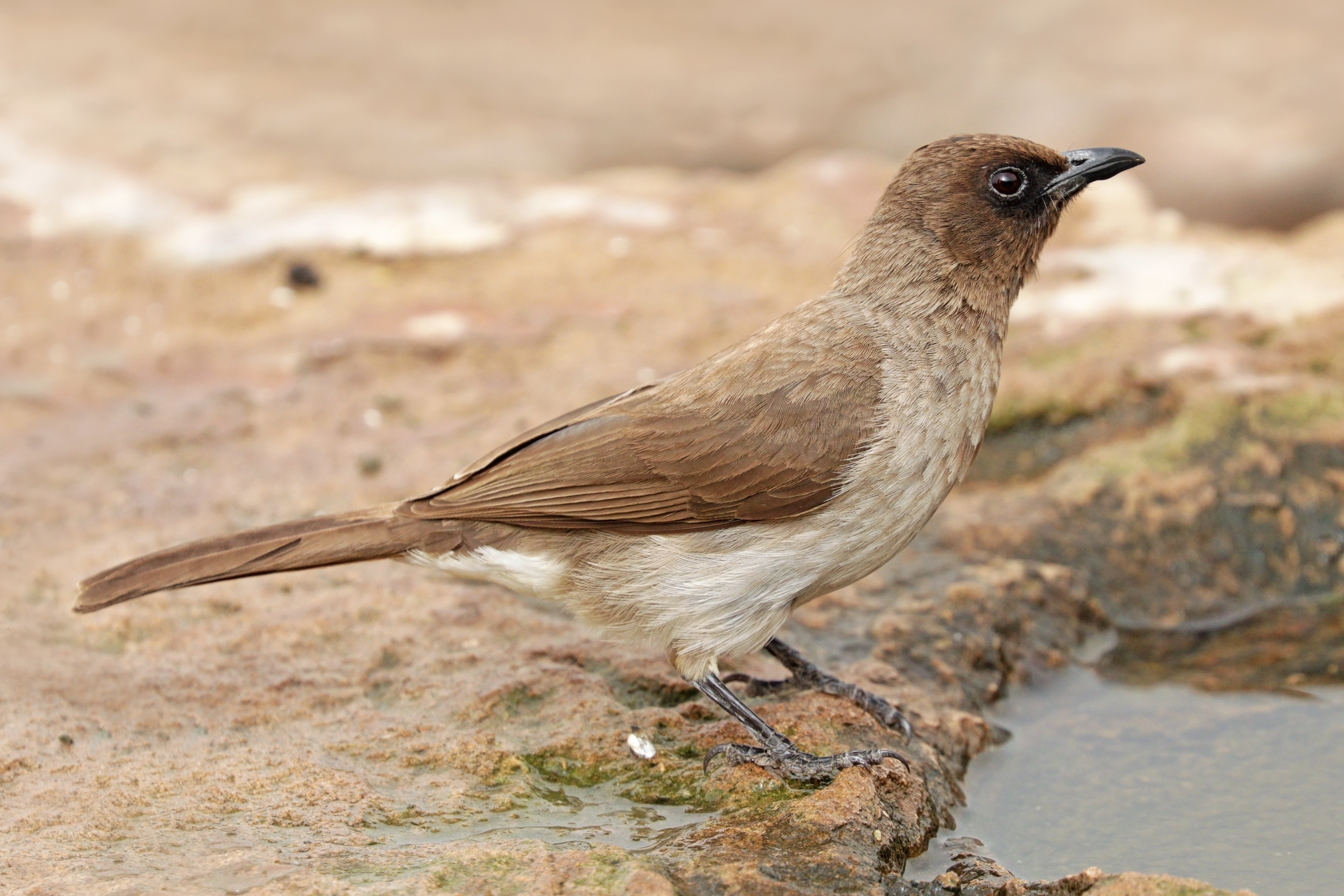 Common bulbul (Pycnonotus barbatus barbatus), Souss-Massa National Park, Morocco